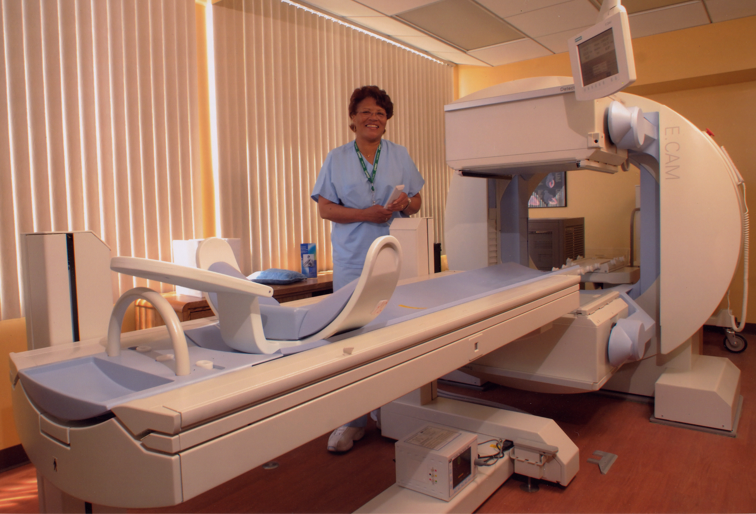 Siemens E.Cam SPECT gamma camera with nuclear medicine technologist